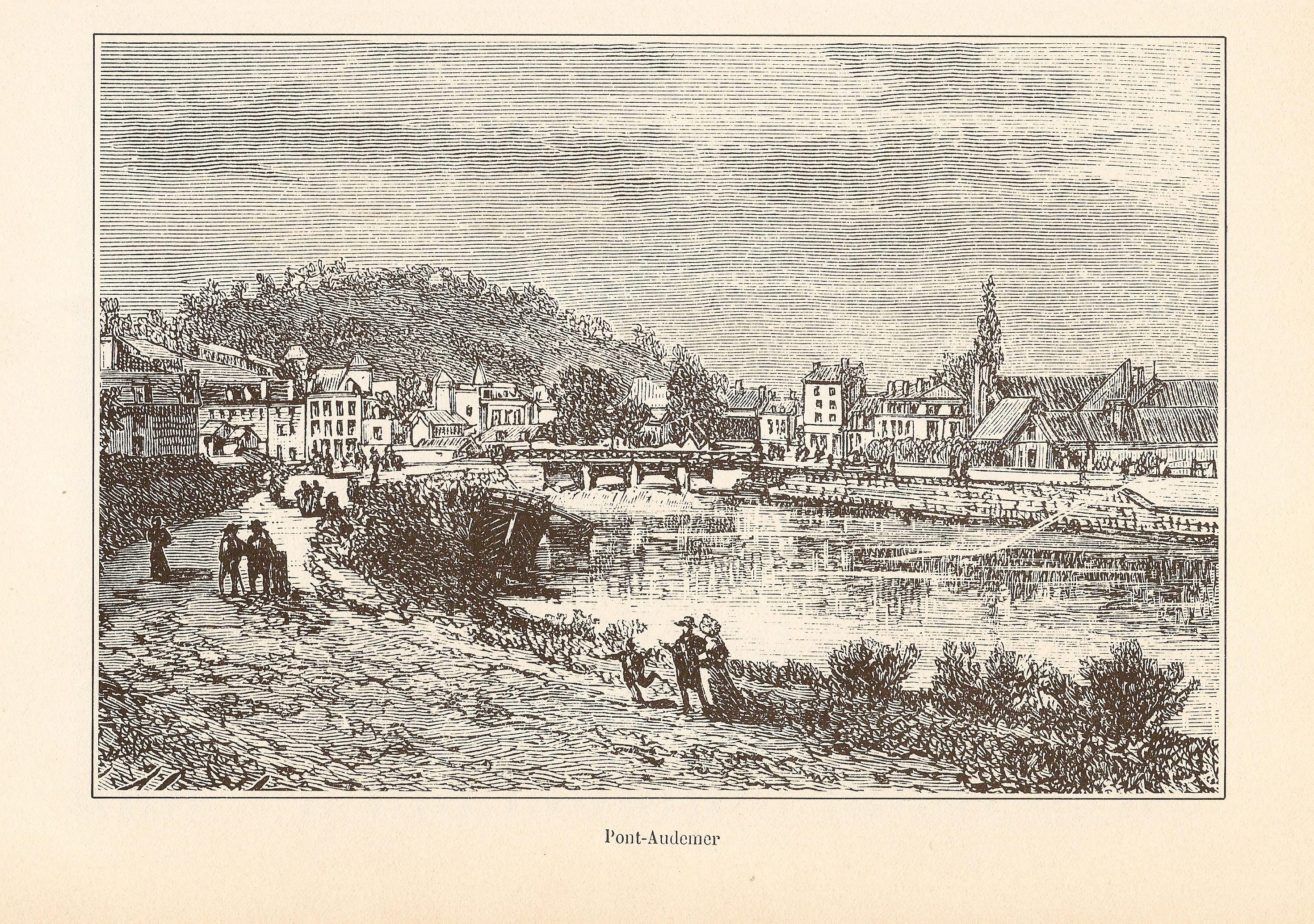 Engraving of the city of Pont-Audemer in the book Le Département de L'Eure (1882) by Victor Adolphe Malte-Brun (1816 – 1889).